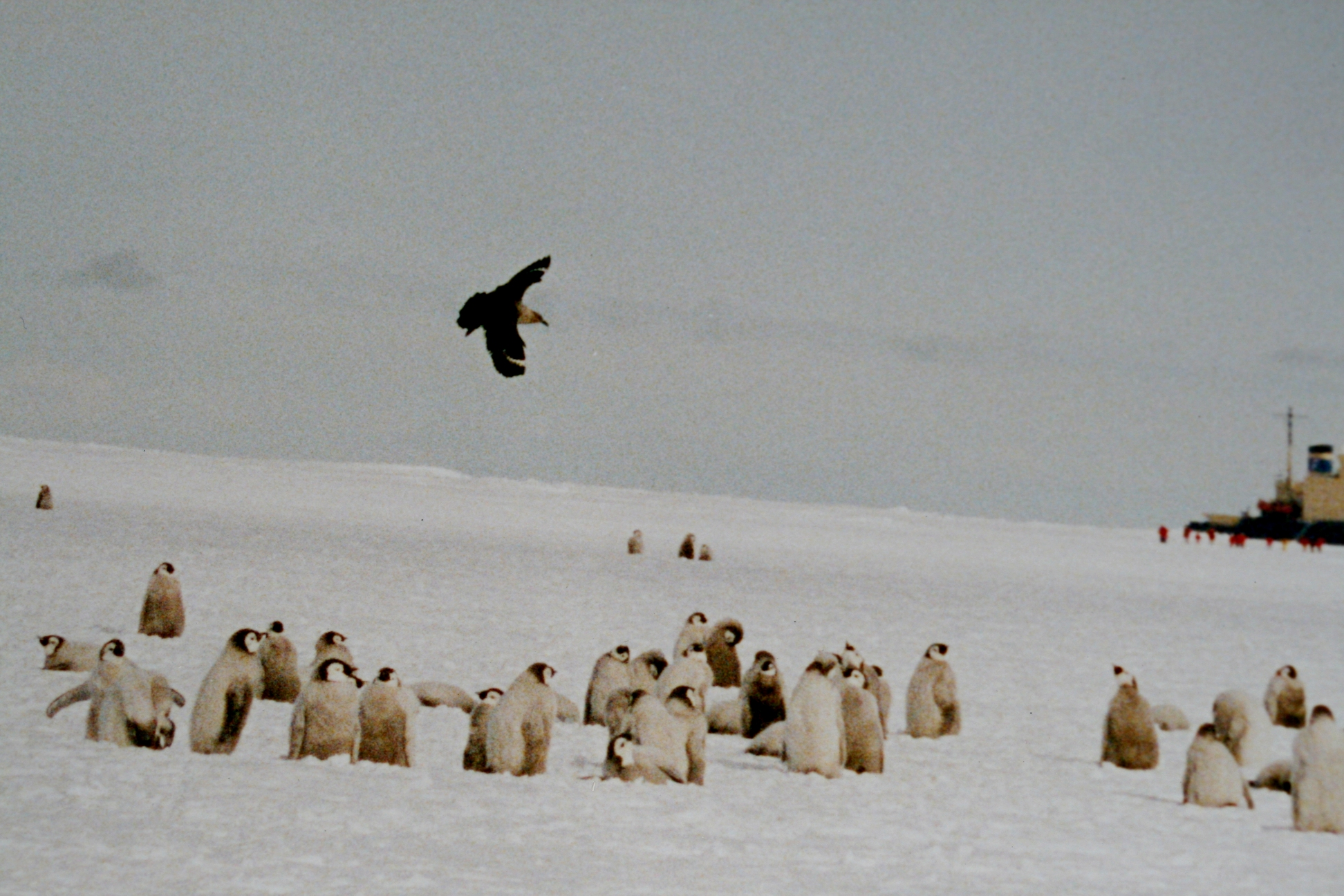 A skua is flying over Emperor penguin chicks, looking for dinner Ross Sea, Antarctica. Photograped by Brocken Inaglory in January, 2001.